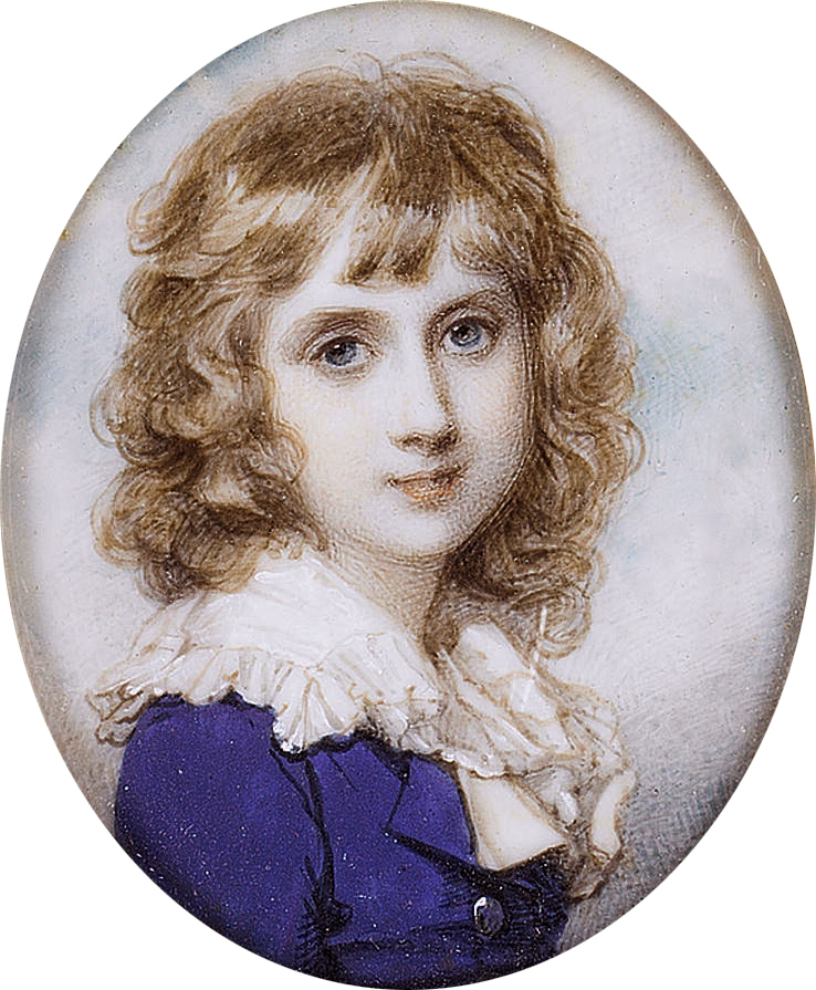 Dr. Stephen Lushington (1782-1873), as a boy inscribed verso: Stephen / Lushington / July 1789 oval, 5.1 cm high